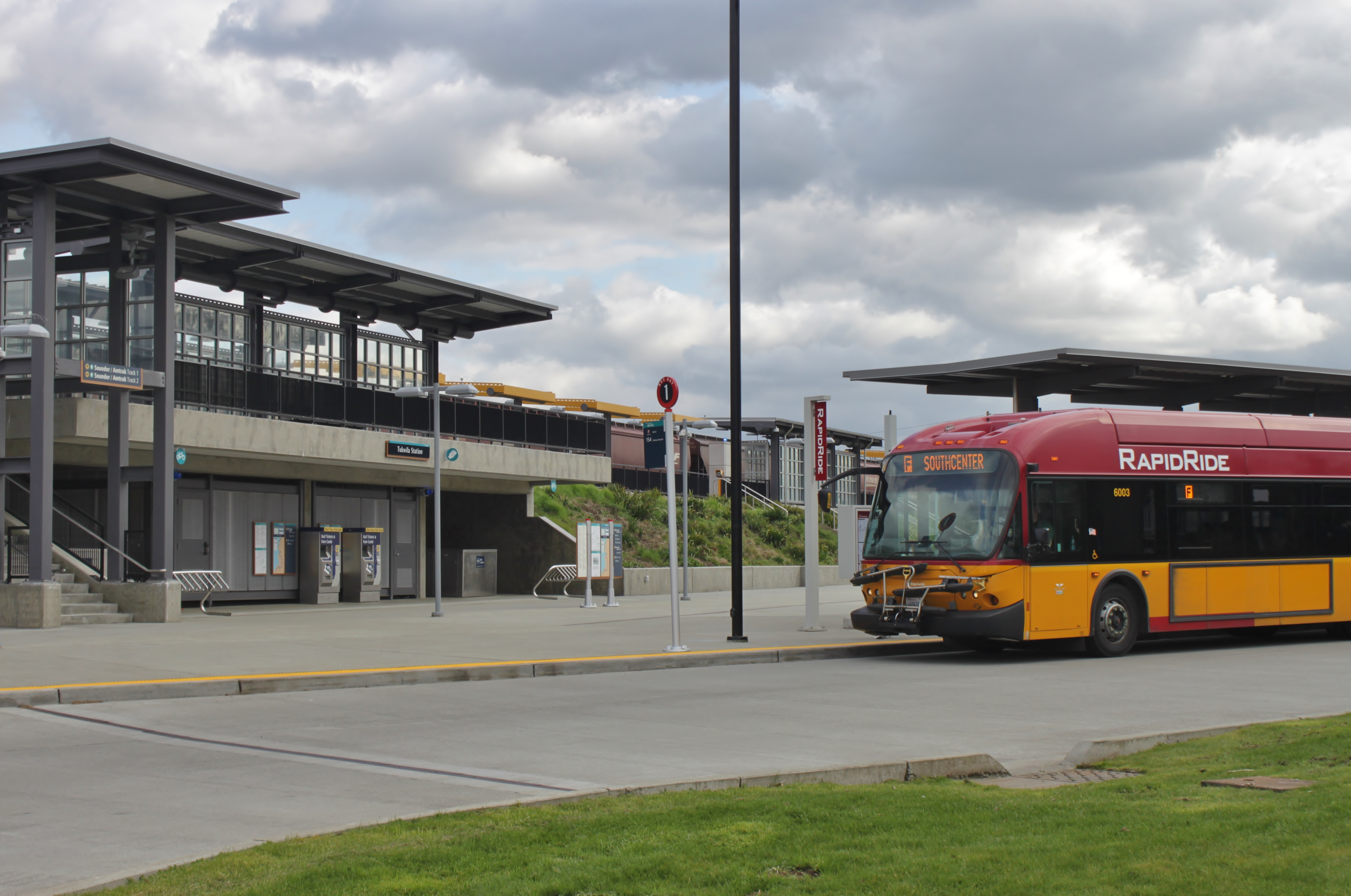 A King County Metro bus on the RapidRide F Line stopped at Tukwila station.